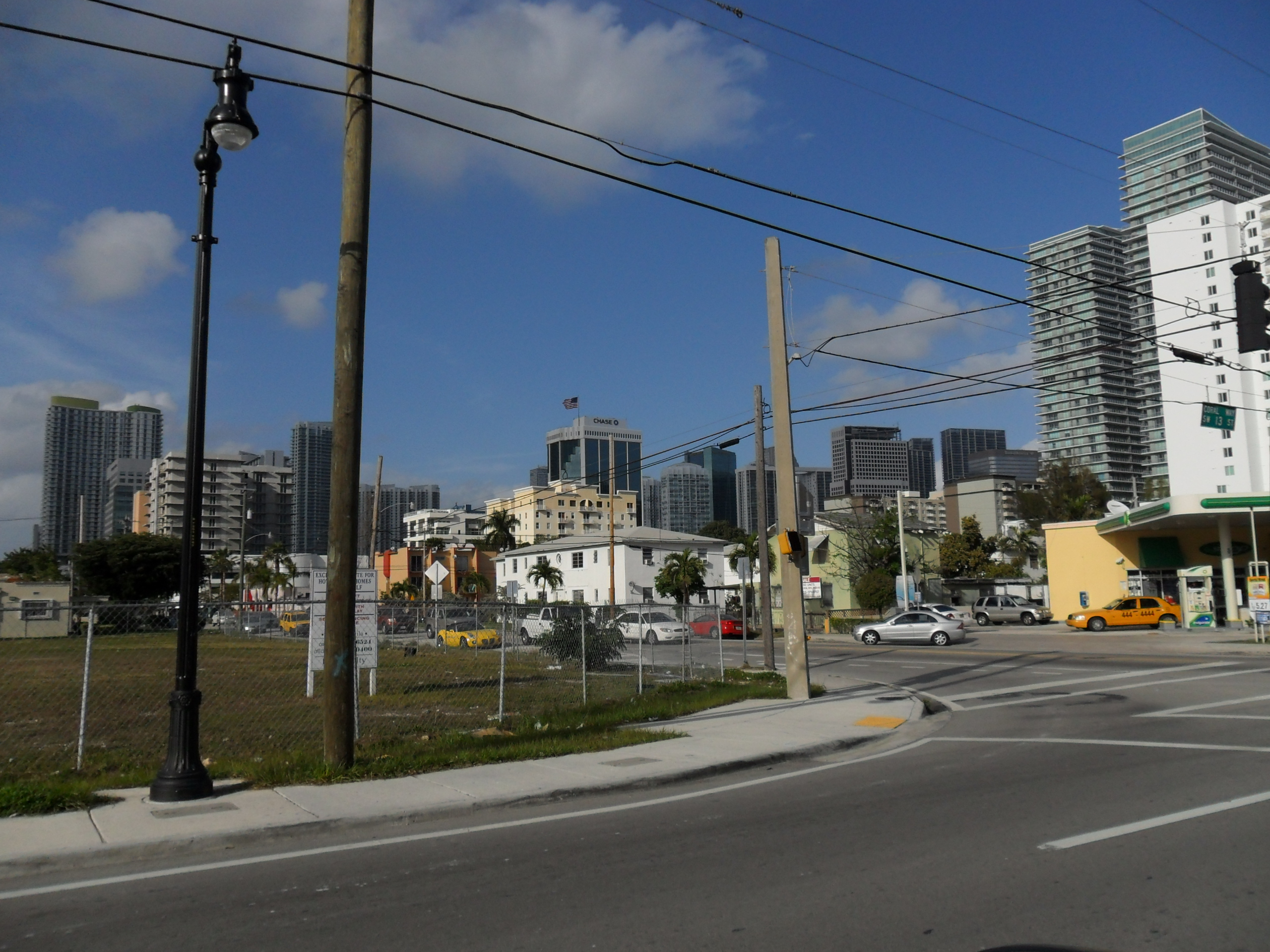 West Brickell in Miami, Florida in 2011 just before a second high rise development boom in the 2010s, the first was during the 2000s housing bubble.